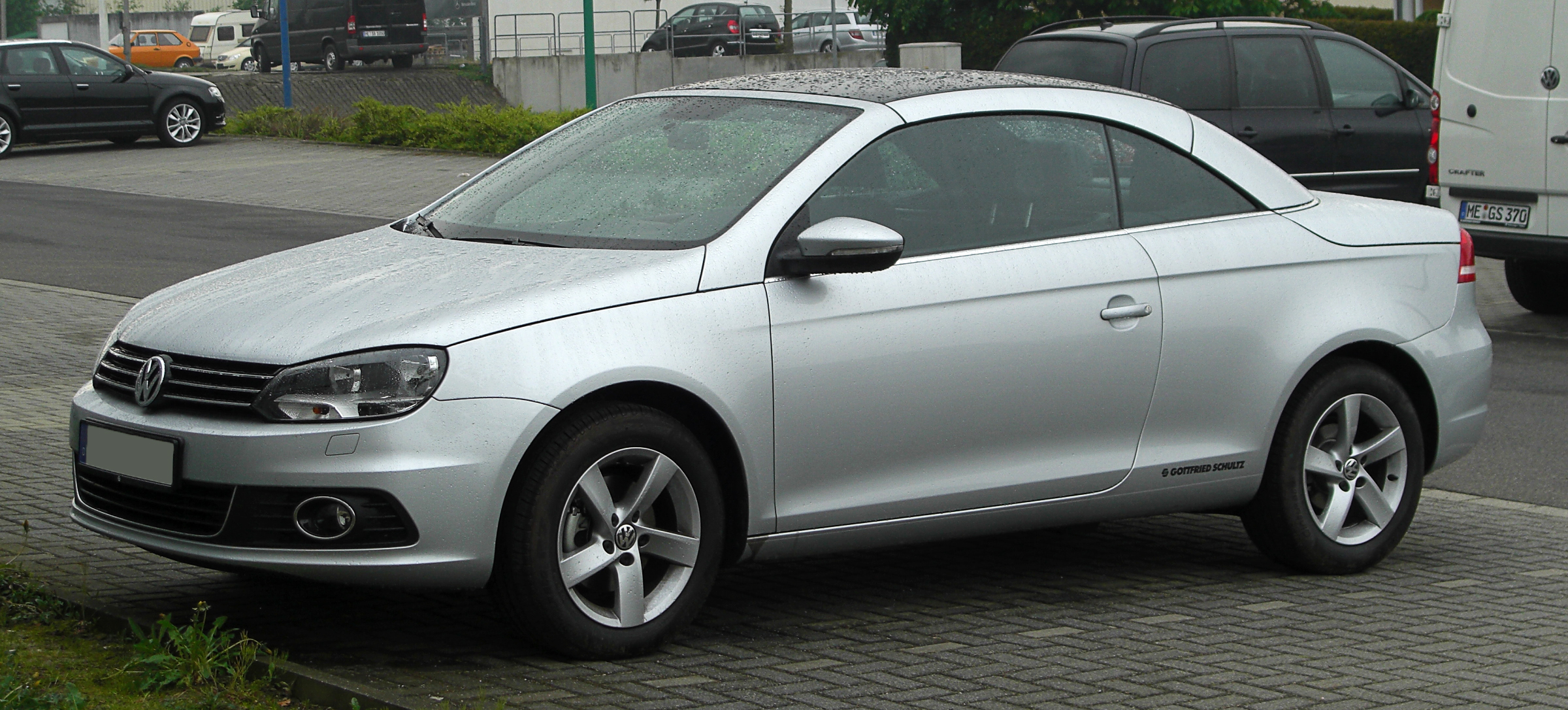 VW Eos 1.4 TSI BlueMotion Technology (Facelift)